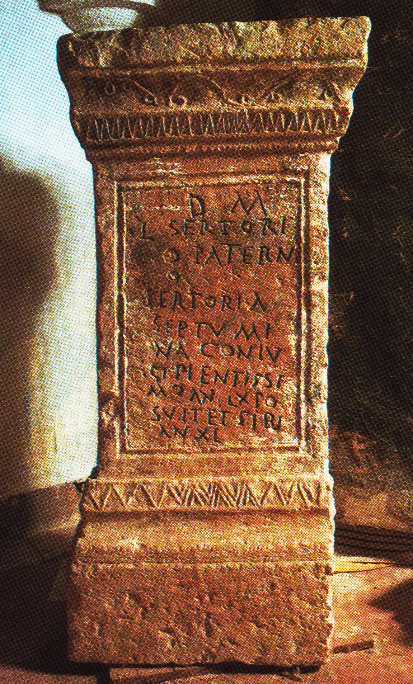 Sepulchral inscription for Lucius Sertorius by Sertoria Septumina, his wife. Santa Cecilia Barriosuso (Burgos)